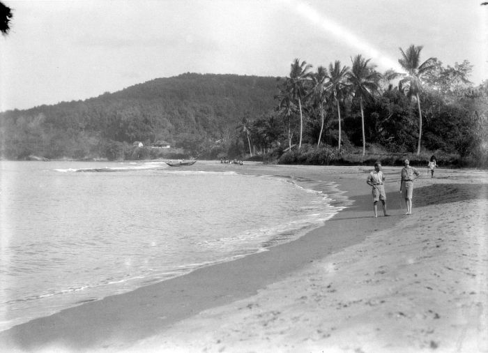 Europeans on the beach at Pelabuhanratu